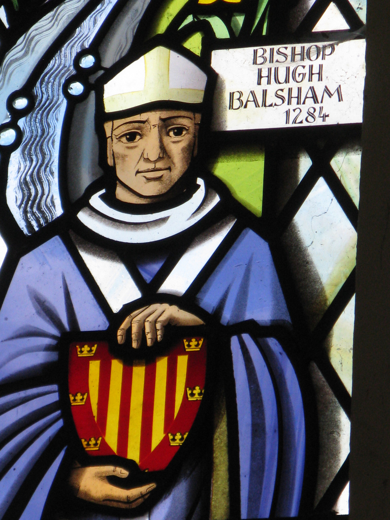 Hugh Balsham or Hugo de Balsham shown in a window at St George's church in Thriplow, Cambridgeshire.